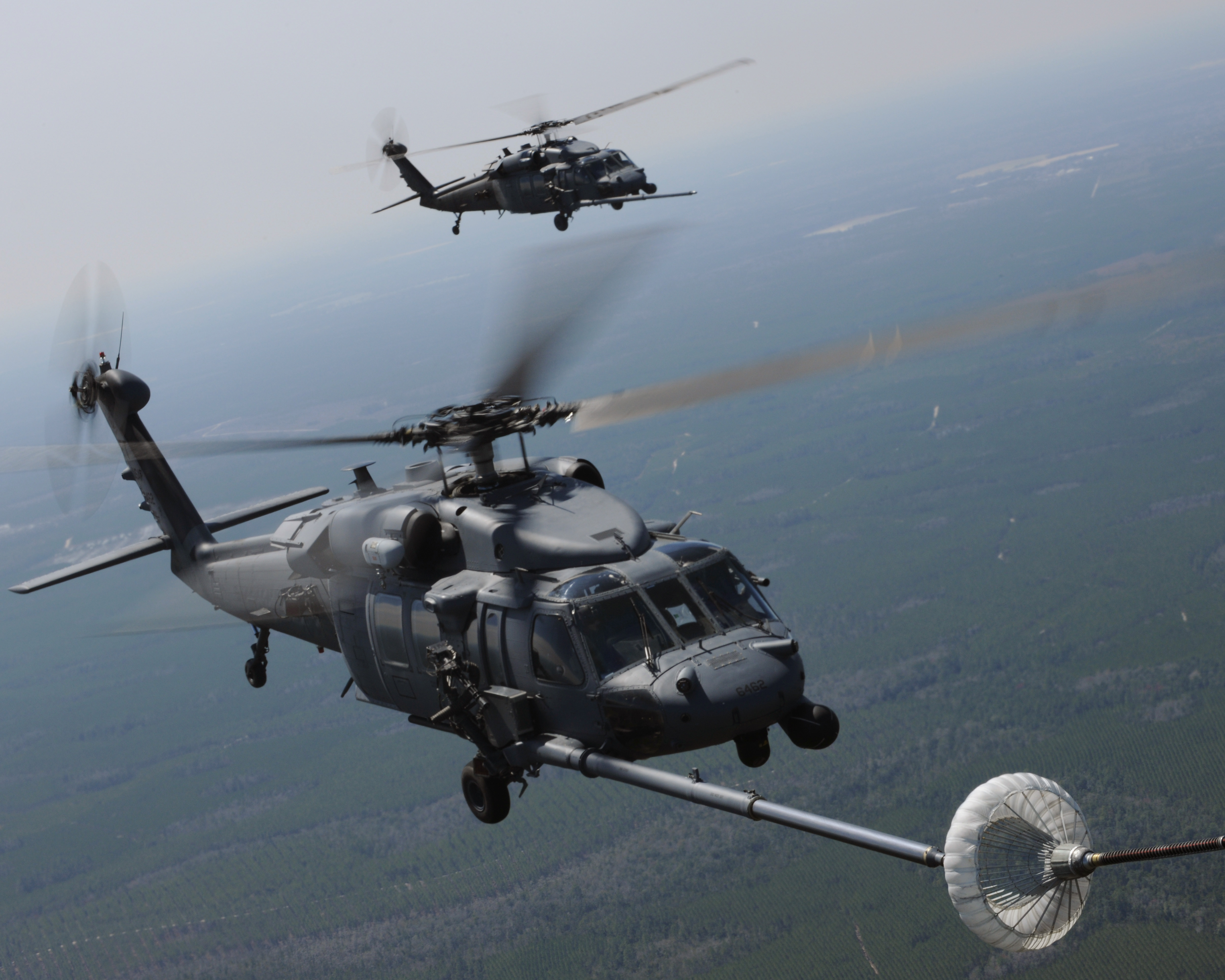 A HH-60G Pave Hawk from the 41st Rescue Squadron out of Moody Air Force Base, Ga., prepares to refuel from a HC-130P Hercules from the 71st Rescue Squadron while in training.